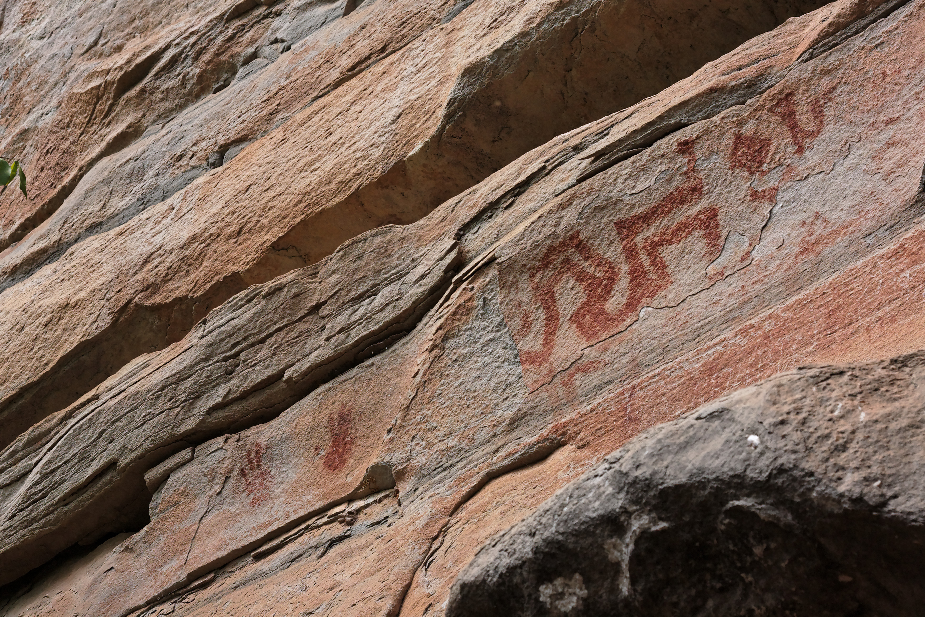 Pha Taem National Park, Ubon Ratchathani province, Thailand